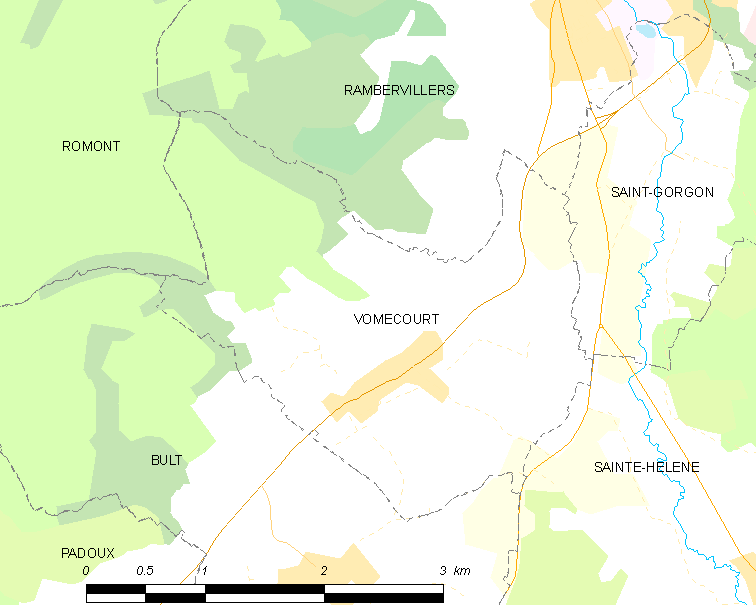 Map of French municipality Vomécourt